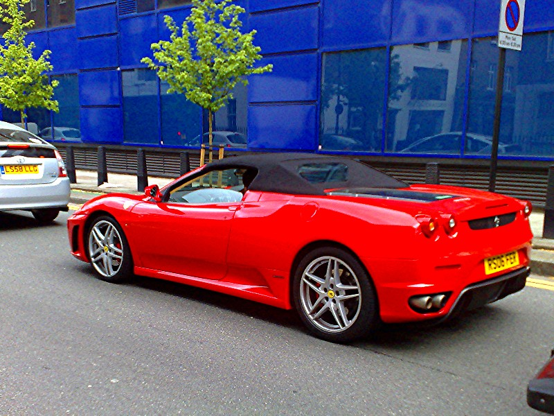 Ferrari F430 Spider, in London